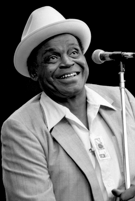 Willie Dixon at Monterey Jazz Festival, 1981. photo by Brian McMillen /